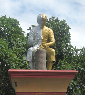 Welcome statue in Gesang Village.